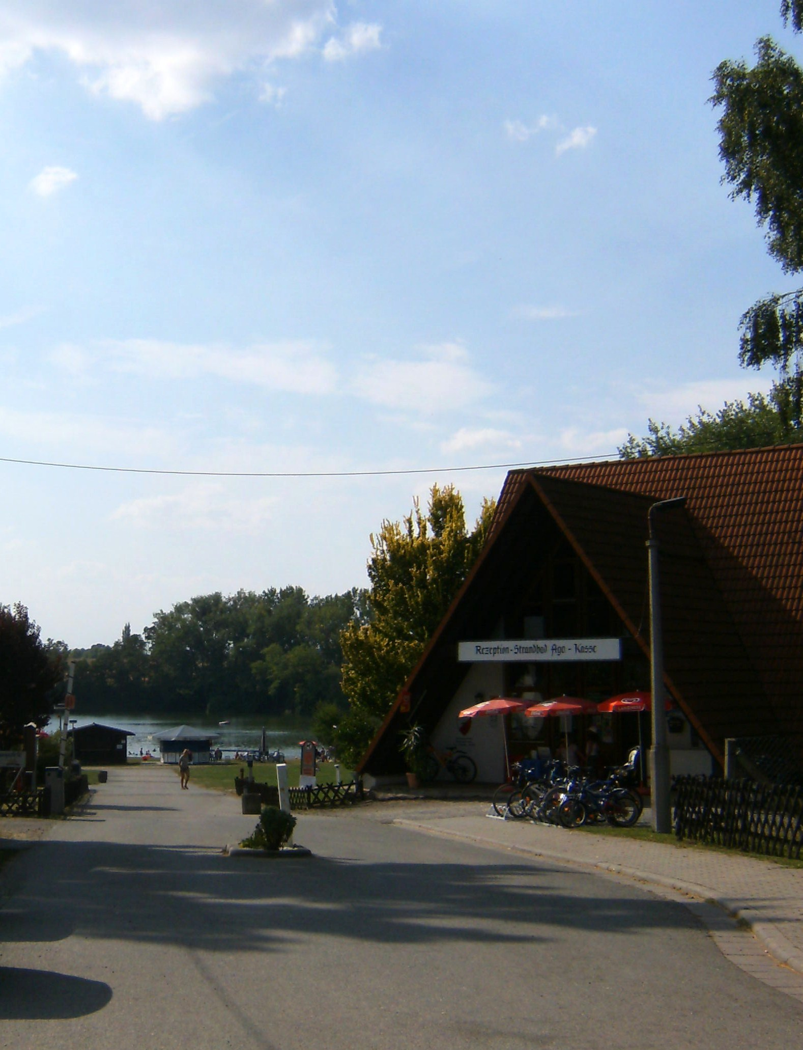 Gera Kleinaga bathing beach.